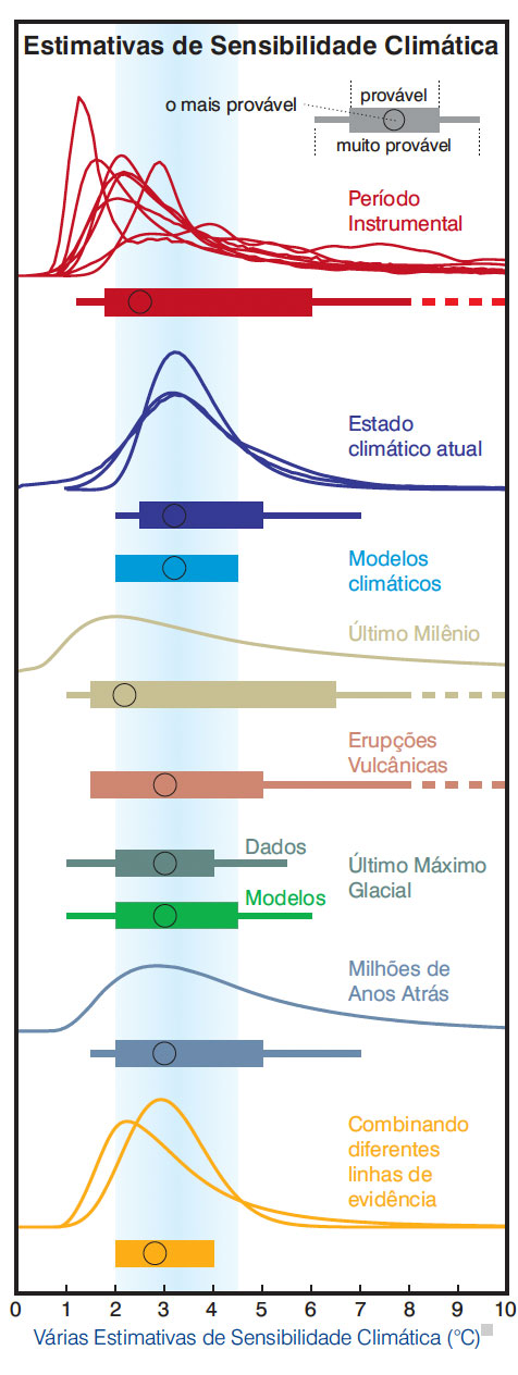 Various estimates of climate sensitivity, based on diffenrent approaches. The circles stand for the most likely value of each estimate. The bar is the uncertainty range including more than 66% probability.